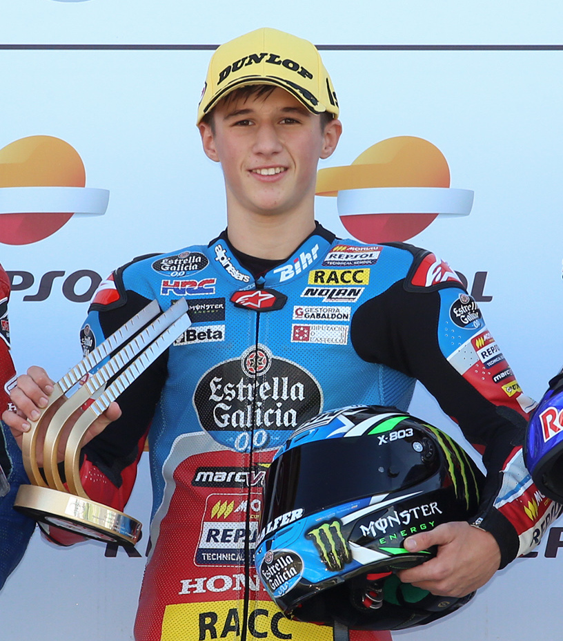 Sergio García on the podium of the 2018 CEV Moto3 Valencia II race 2.